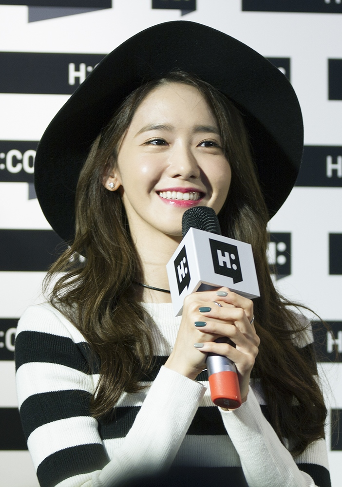 YoonA at H:Connect event in Taiwan on October 31, 2015.